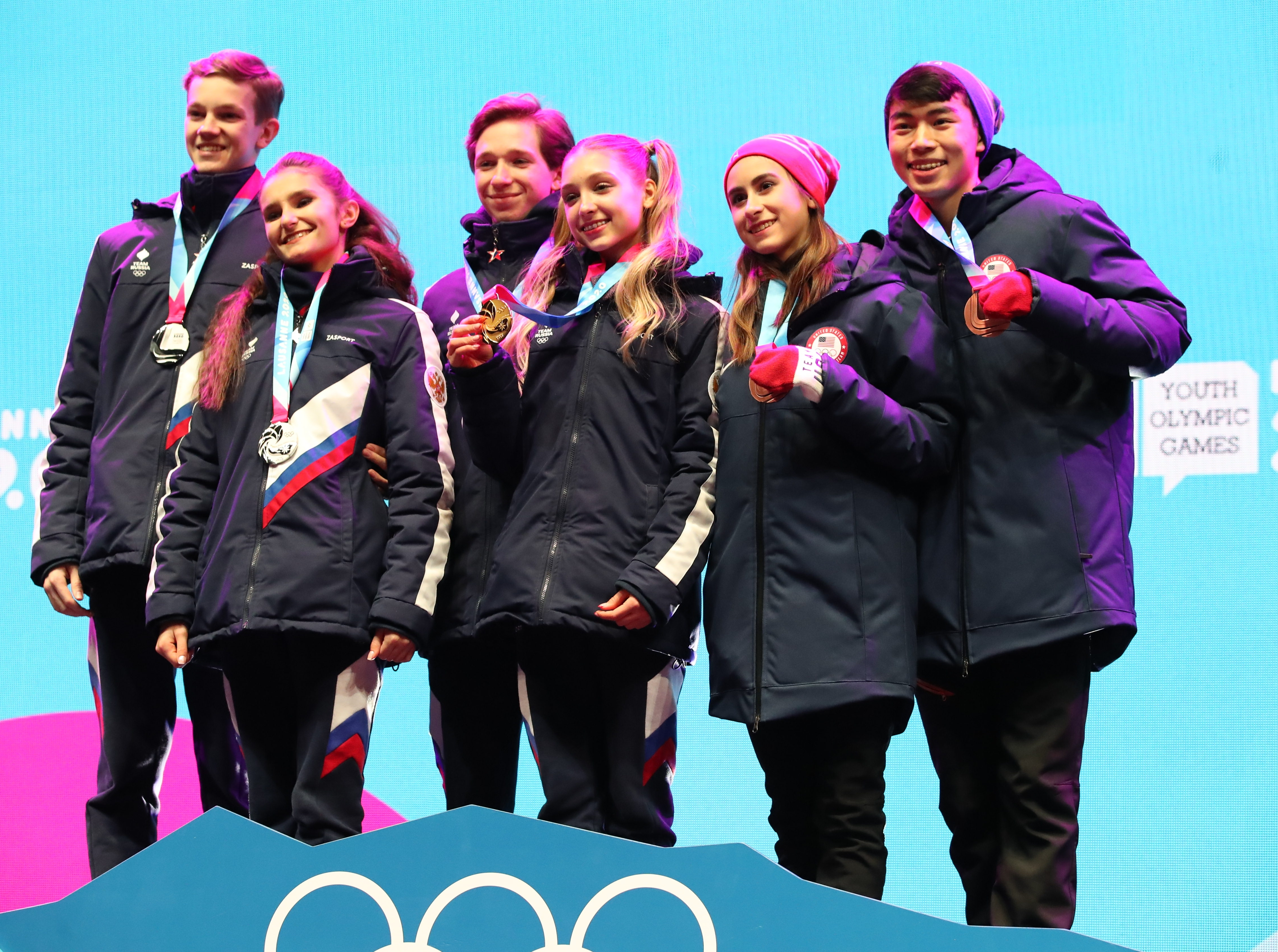 Medal ceremony of Figure skating – Ice dance at the 2020 Winter Youth Olympics in Lausanne on 13 January 2020.